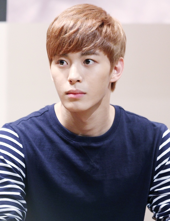 Hongbin at a fanmeet in Myeongdong on August 5, 2013.